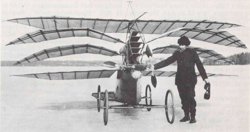 Carl Rickard Nyberg's "Flugan" (The Fly)